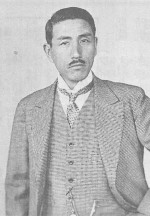 baron, sanenori sonoda